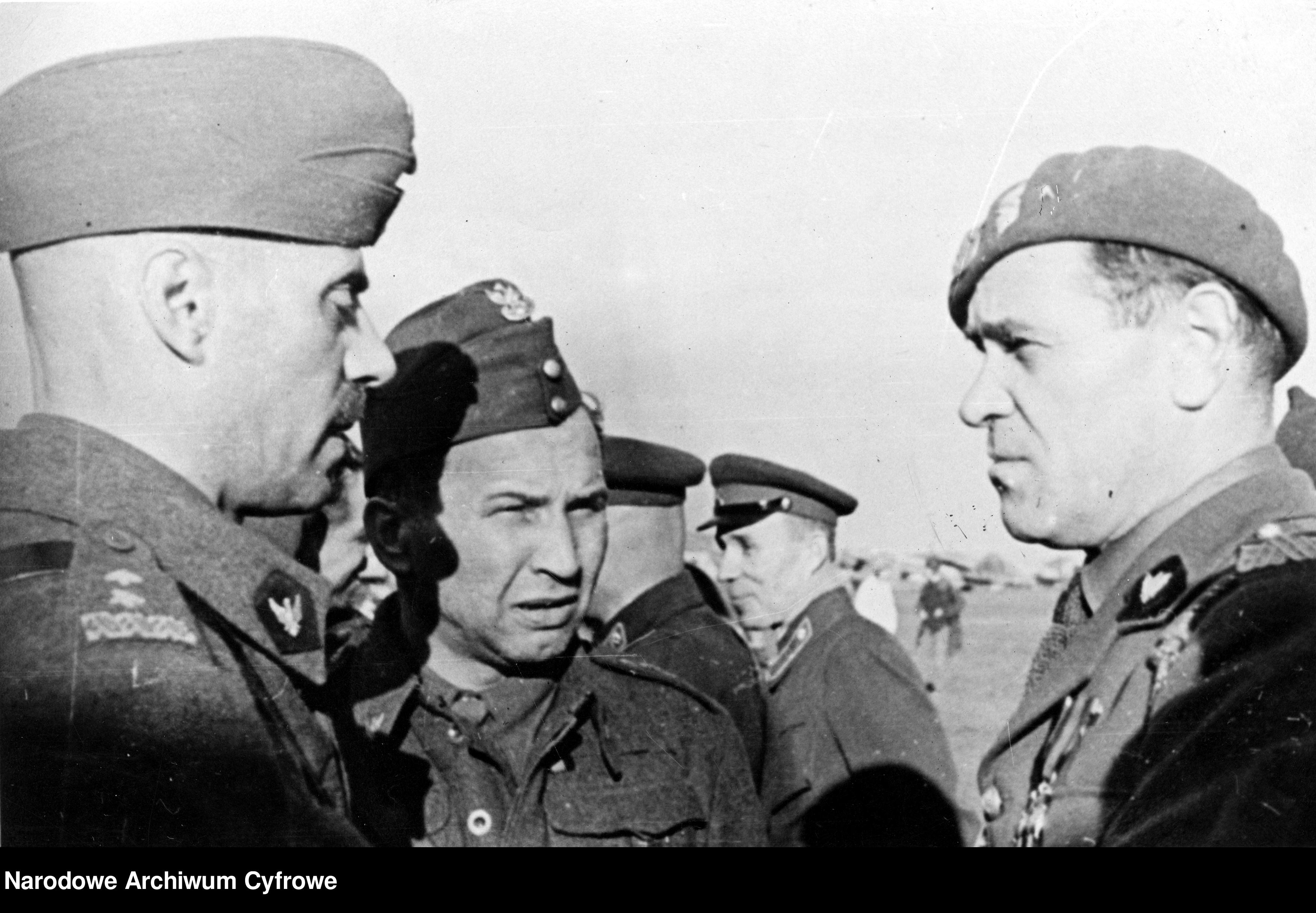 Senior commanders of the Polish Army in the USSR. They stand in the foreground from the left: Army commander, General Władysław Anders, Col. Leopold Okulicki, General Zygmunt Bohusz-Szyszko. Tockoje. 1941-1942.